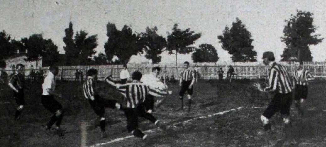 Picture of a Munich derby between FC Bayern and FC Wacker in 1907